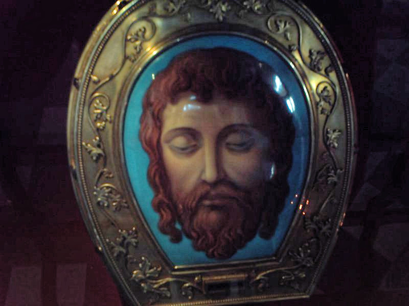 Replica reliquary of John the Baptist's head